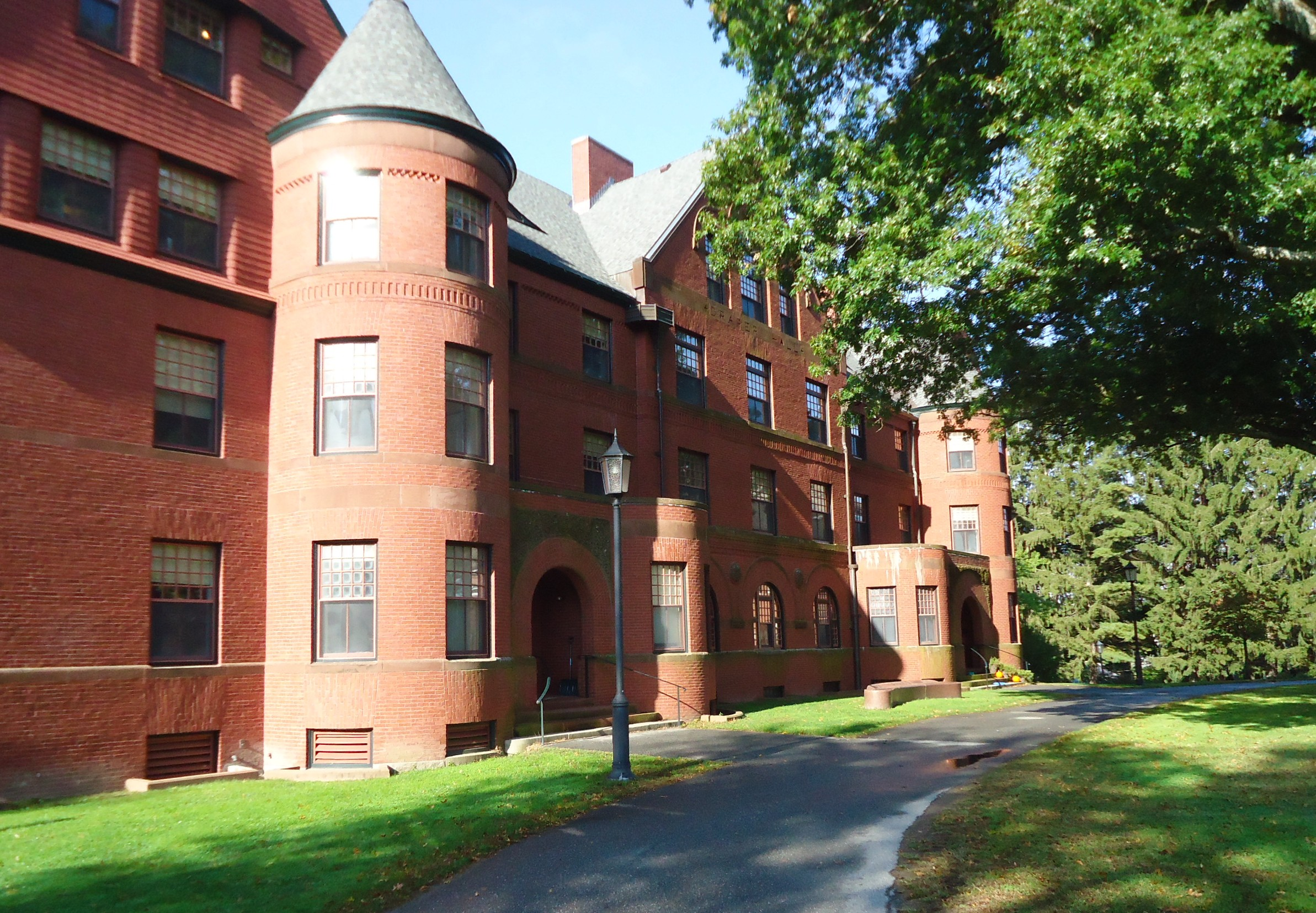 Draper Hall, front view from the side, at Abbot campus, at Phillips Academy in Andover, Massachusetts.